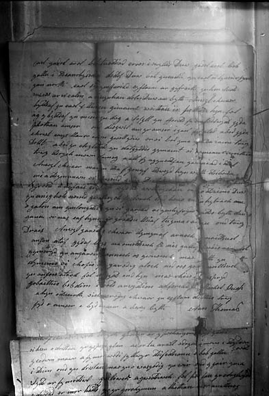 1 negative : glass, dry plate, b&w ; 16.5 x 12 cm.